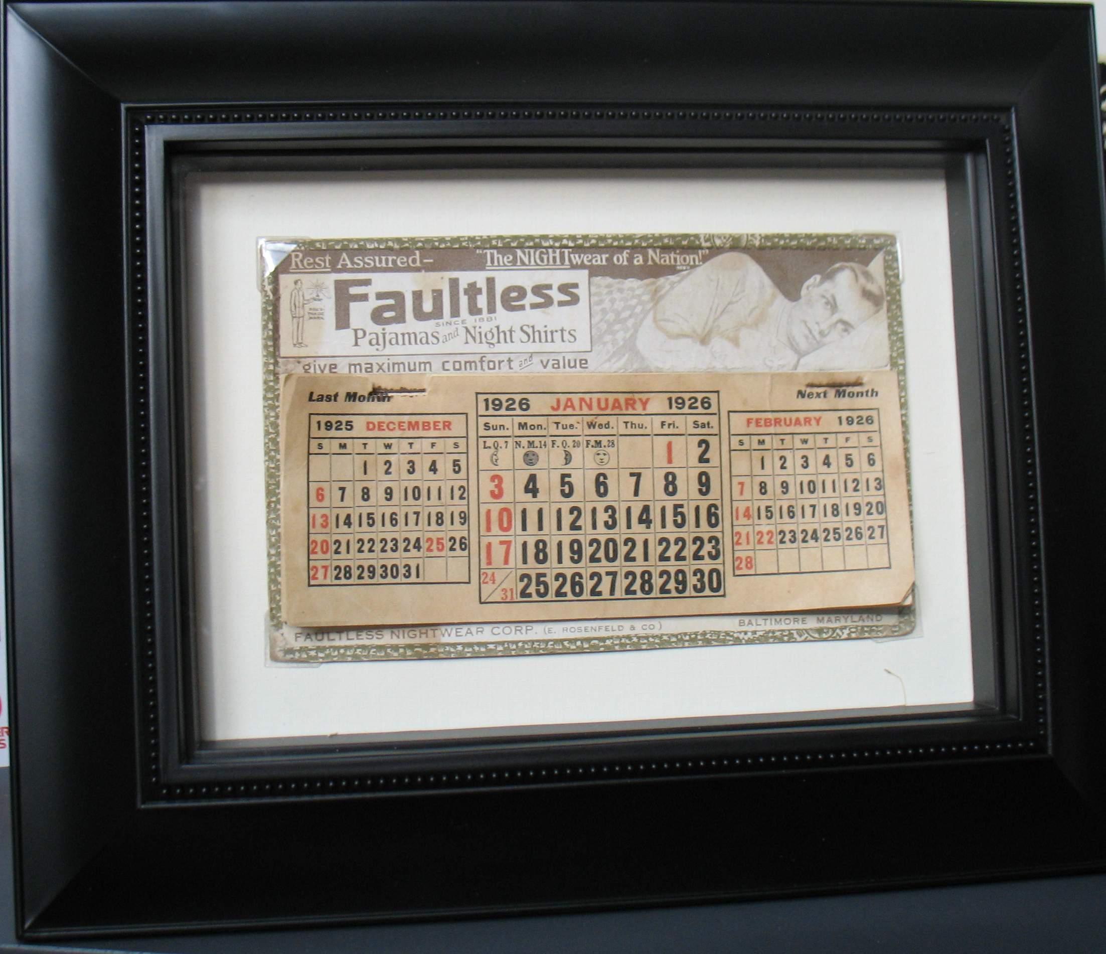 Photo of a 1926 calendar advertising the Faultless Pajama Company